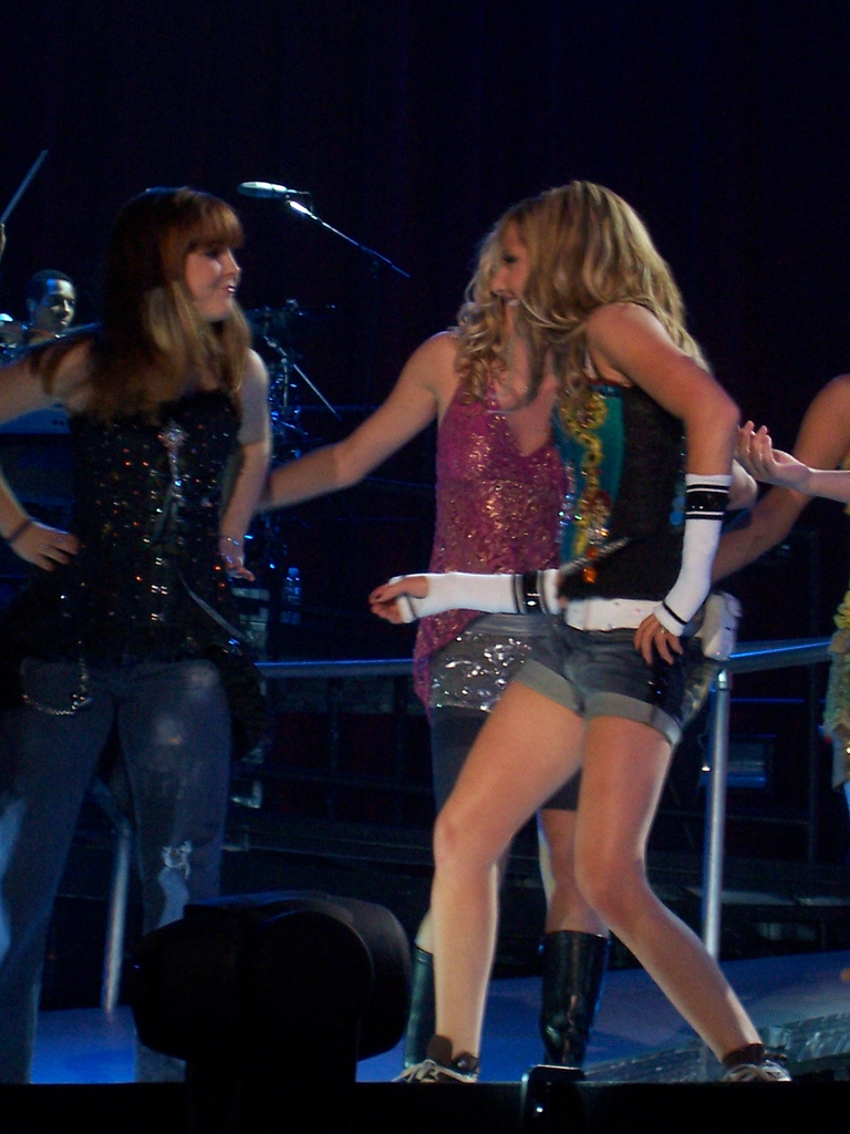 He Said She Said